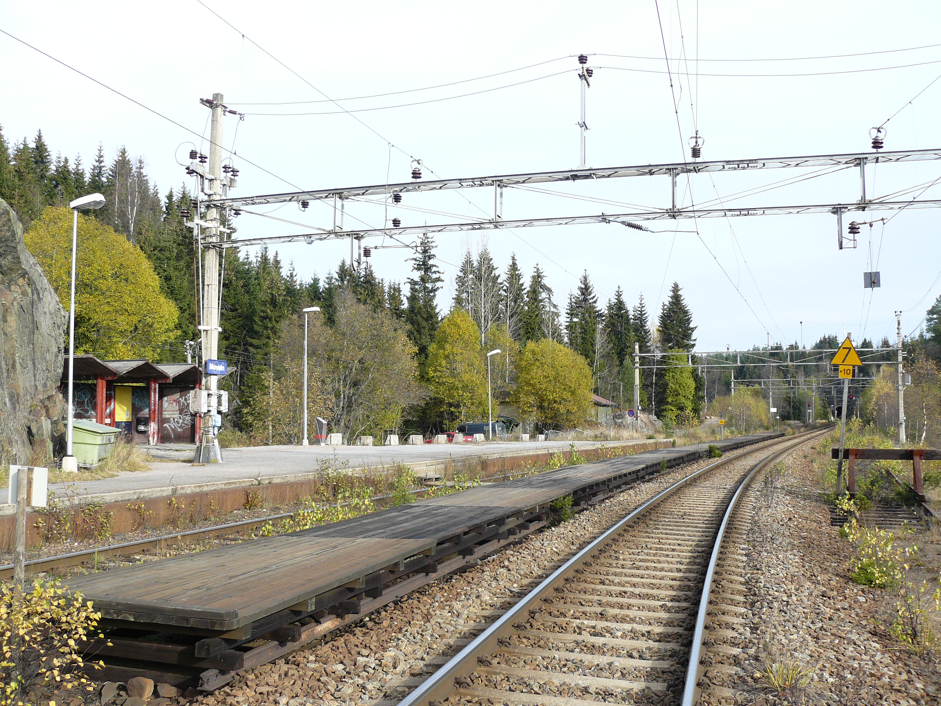 Movatn trainstation, Oslo